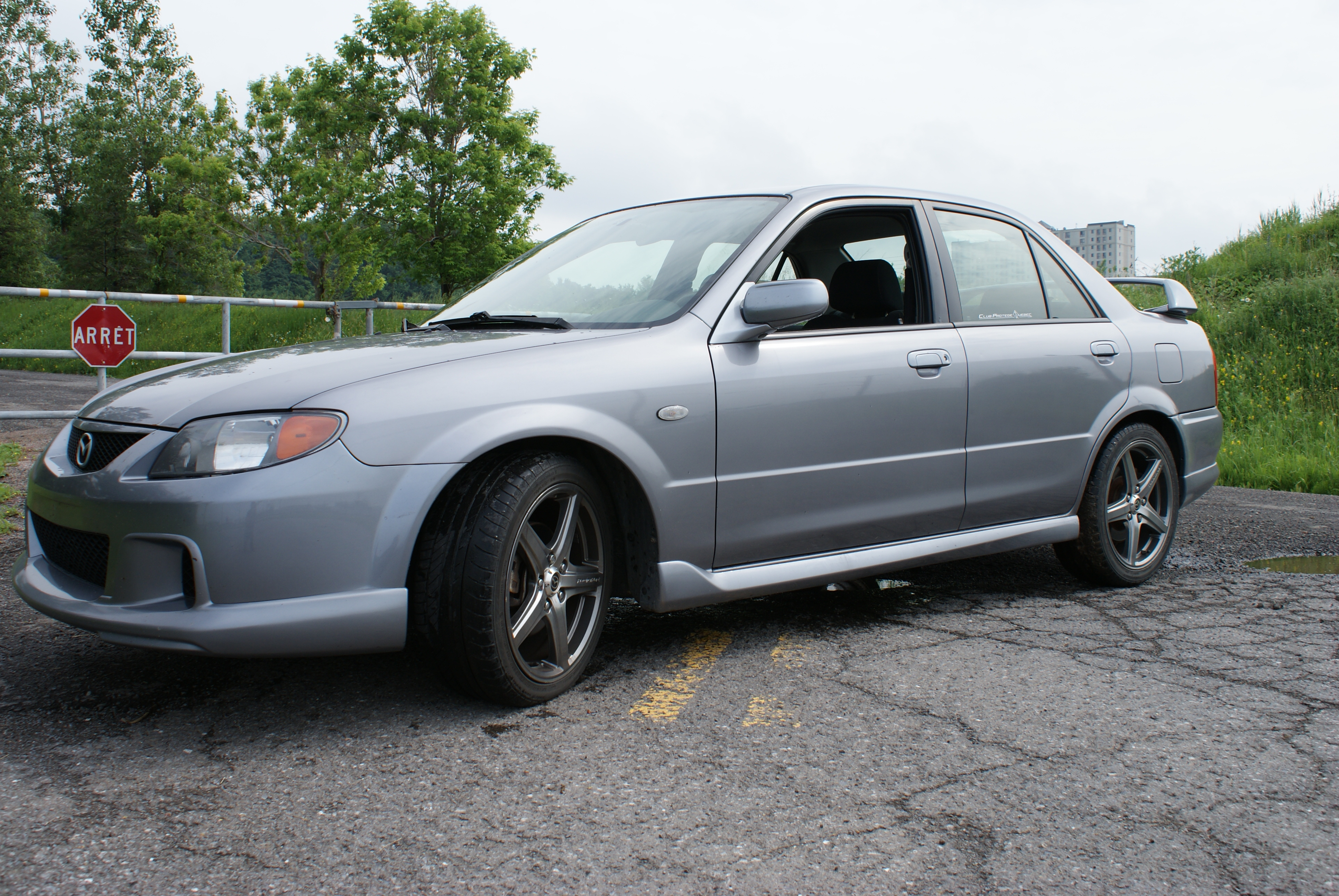 Titanium Mazdaspeed 2003.5